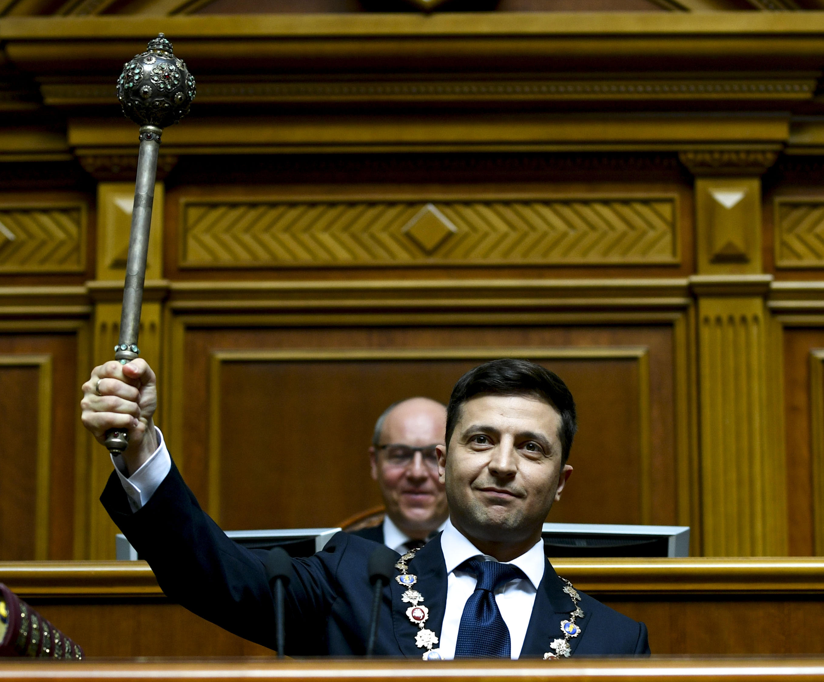 Volodymyr Zelensky presidential inauguration, 20th May 2019